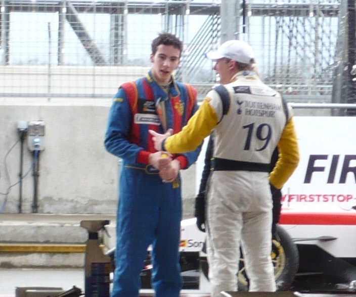 Max Wissel and Craig Dolby talking in the pitlane. Photo taken by me at Silverstone's 2010 SF round.